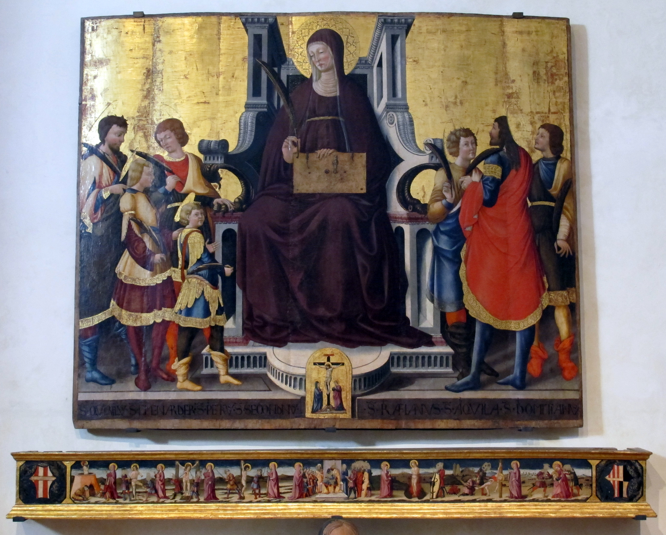 Santa Felicita (Florence) - Sacristy